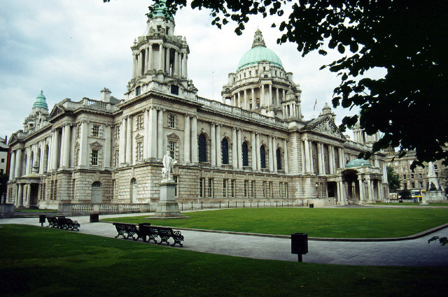 Belfast City Hall, Donegall Square in the centre of Belfast.